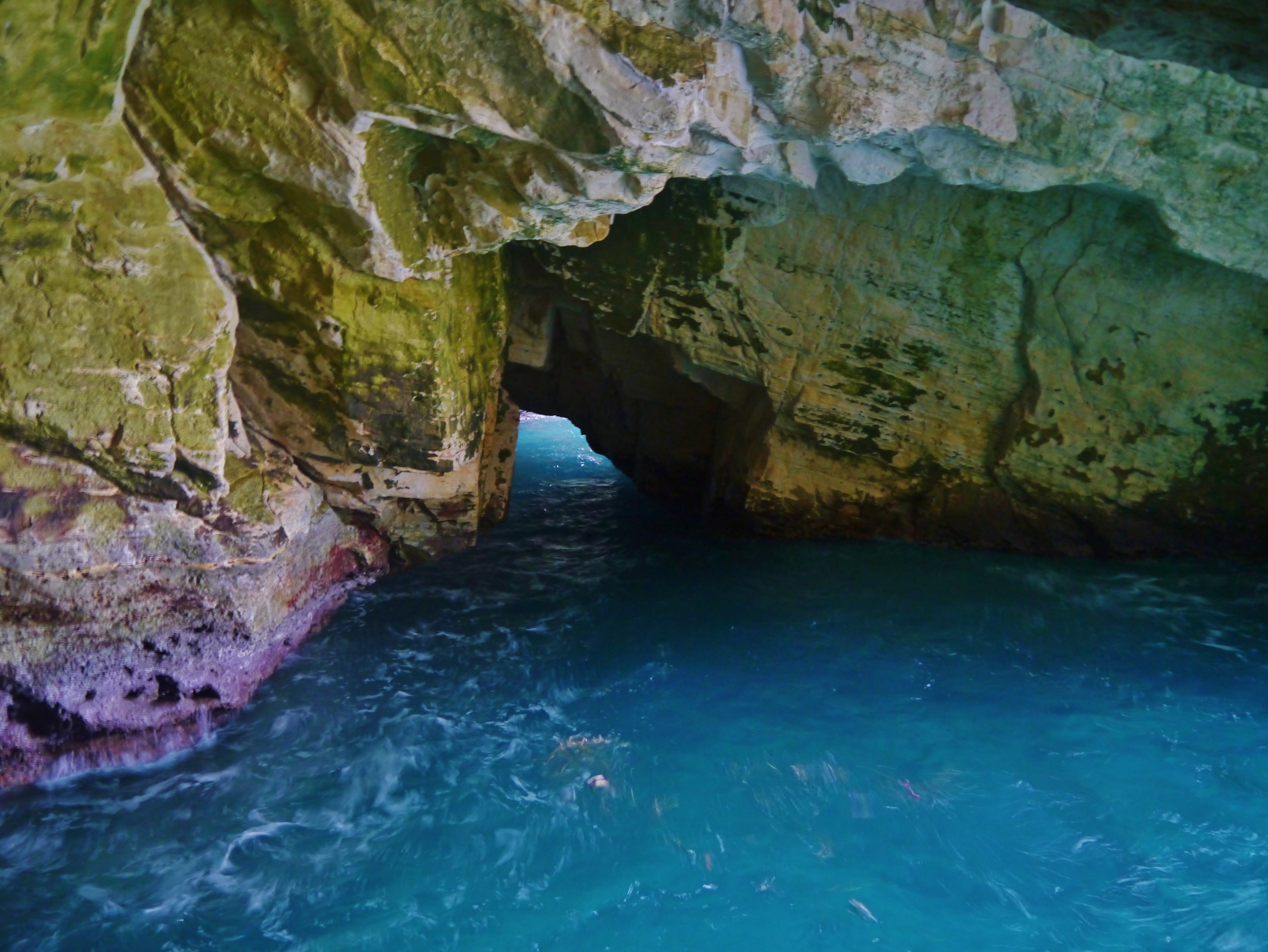 Caves of Rosh HaNikra, Israel